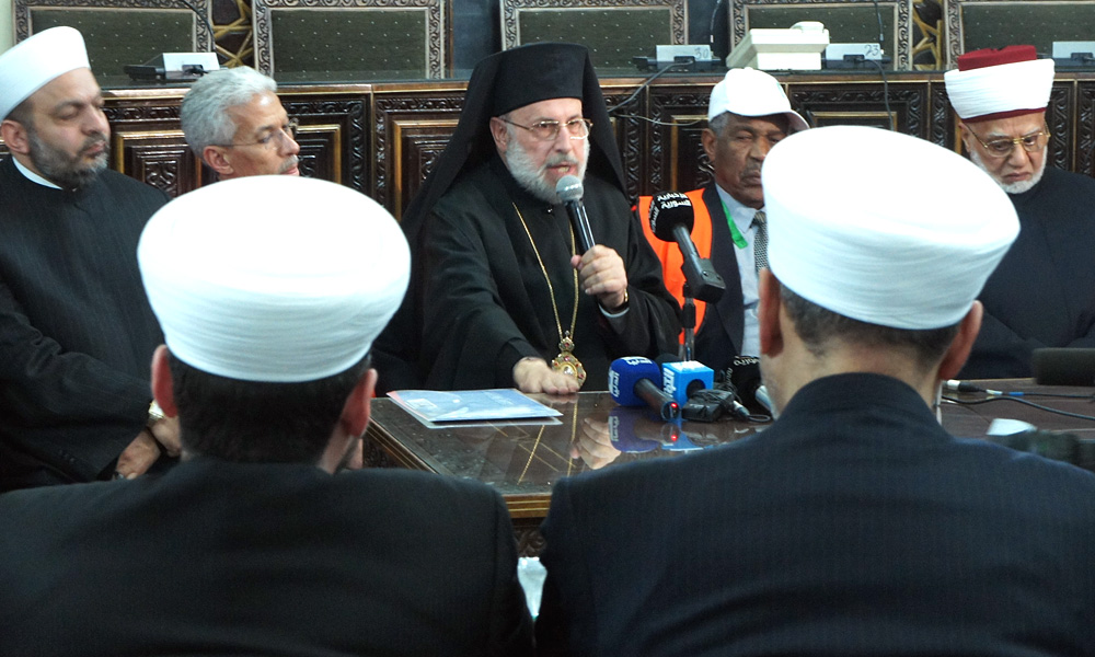 Christians and Muslims at a meeting with Arab League monitors in Damascus, Jan. 17, 2012. Photo taken by VOA Middle East correspondent Elizabeth Arrott while traveling through Damascus with government escorts.